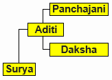 Family tree of god Surya. He is a son of Aditi in Hinduism.